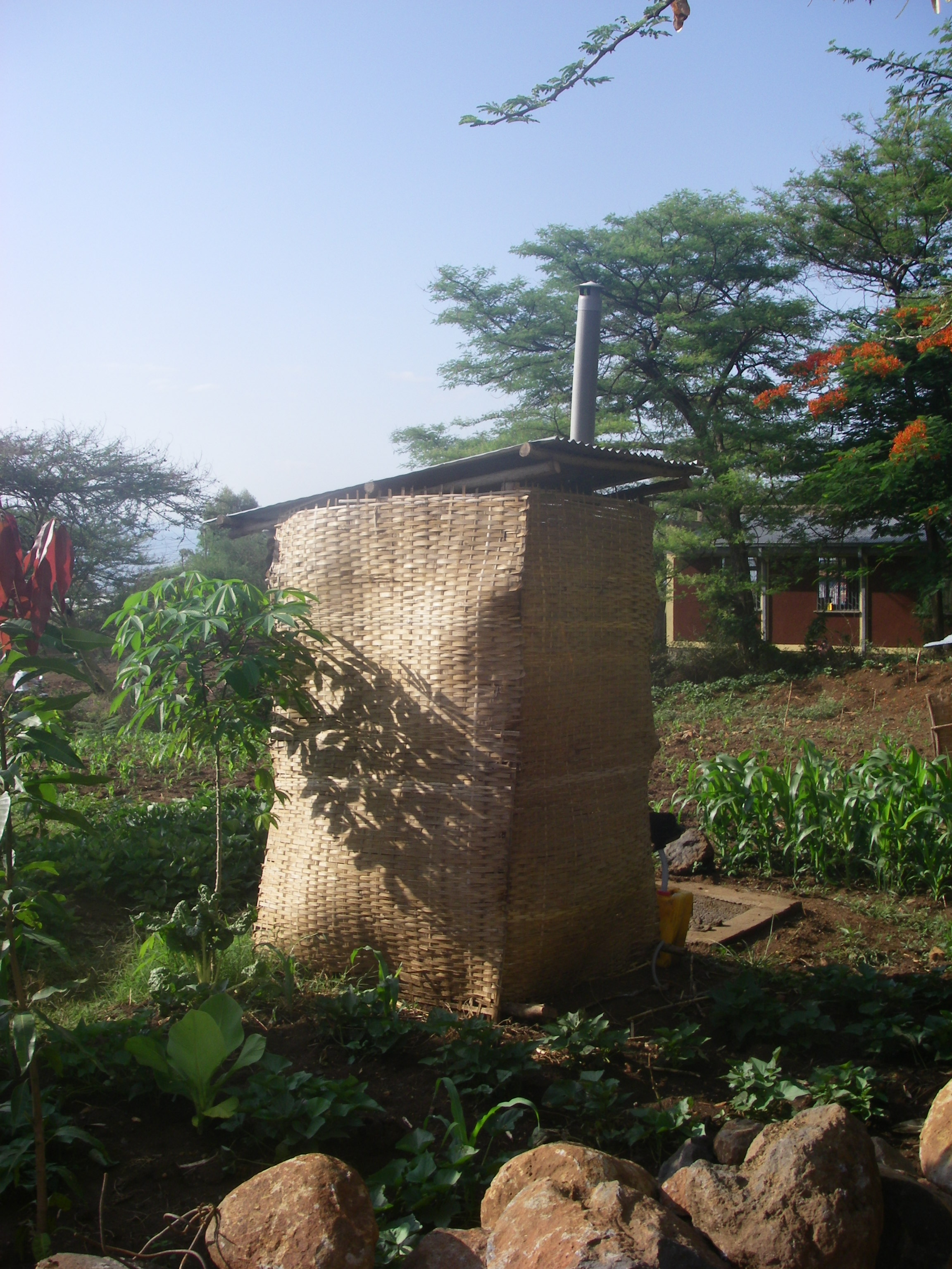 This is a waterless pit latrine where ash is used as drying material to absorb moisture. The pit is well ventilated to provide good circulation of air. Once full the toilet slab is moved to another pit while the pit is covered with earth and the feacal matter is composted. This picture is from the ROSA project in Arba Minch Ethiopia. Arba minch is a small town in the south of Ethiopia with - ca. 79'000 inhabitants - water supply fed by Arba Minch springs - distribution network: 25 public taps and 3000 private connections - no facilities for wastewater collection and treatment. - 85% use pit latrines The ROSA project promotes resource oriented sanitation concepts as a route to sustainable and ecologically sound sanitation in order to meet target 10 of the MDG. Different resource oriented sanitation systems have been built in Arba Minch town that include 15 urine-diversion dry toilets(UDDT), 23 Fossa alternas, 10 Arborloos, 8 greywater towers, 1 biogas unit and more than 4 cocomposting schemes and researches have been made to evaluate these units. The first two or three units were built for demonstration purposes. These units were considered as first testing units and the construction cost was covered fully form ROSA project budget. The remaining units were built with cost sharing as a strategic subsidy, (MoH, 2006), whereby about 75% of the total construction cost was covered by the households and the remaining 25% was covered from ROSA project budget. For more information please read Docs/34th_wedc_2009_ayele_shewa_et_al_2.pdf